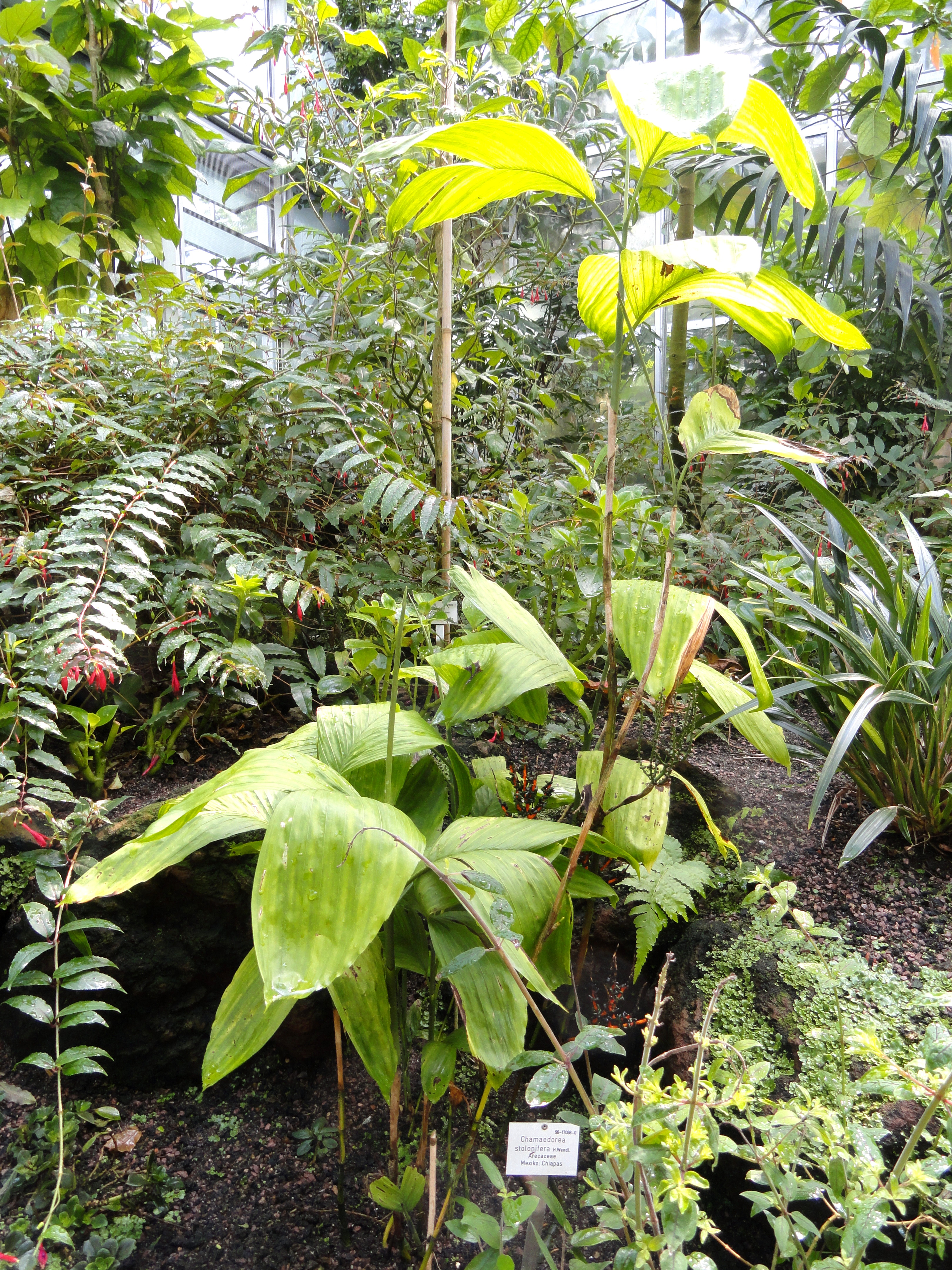 Botanical specimen in the Palmengarten, Frankfurt am Main, Germany.